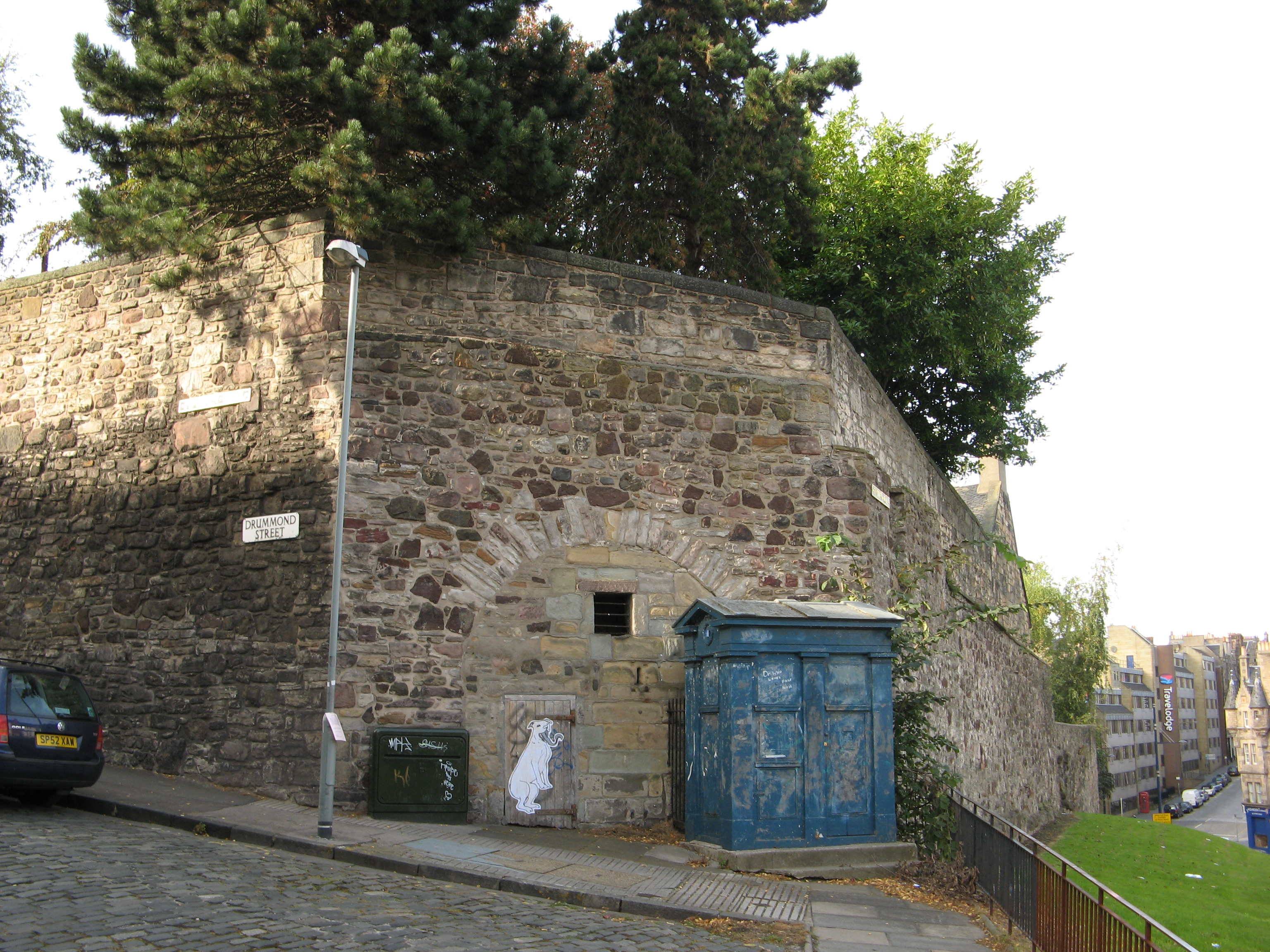 Corner of the 16th-century Flodden Wall at the junction of Drummond Street and the Pleasance